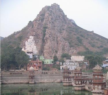 A pond in Alwar, Rajasthan (cropped version)